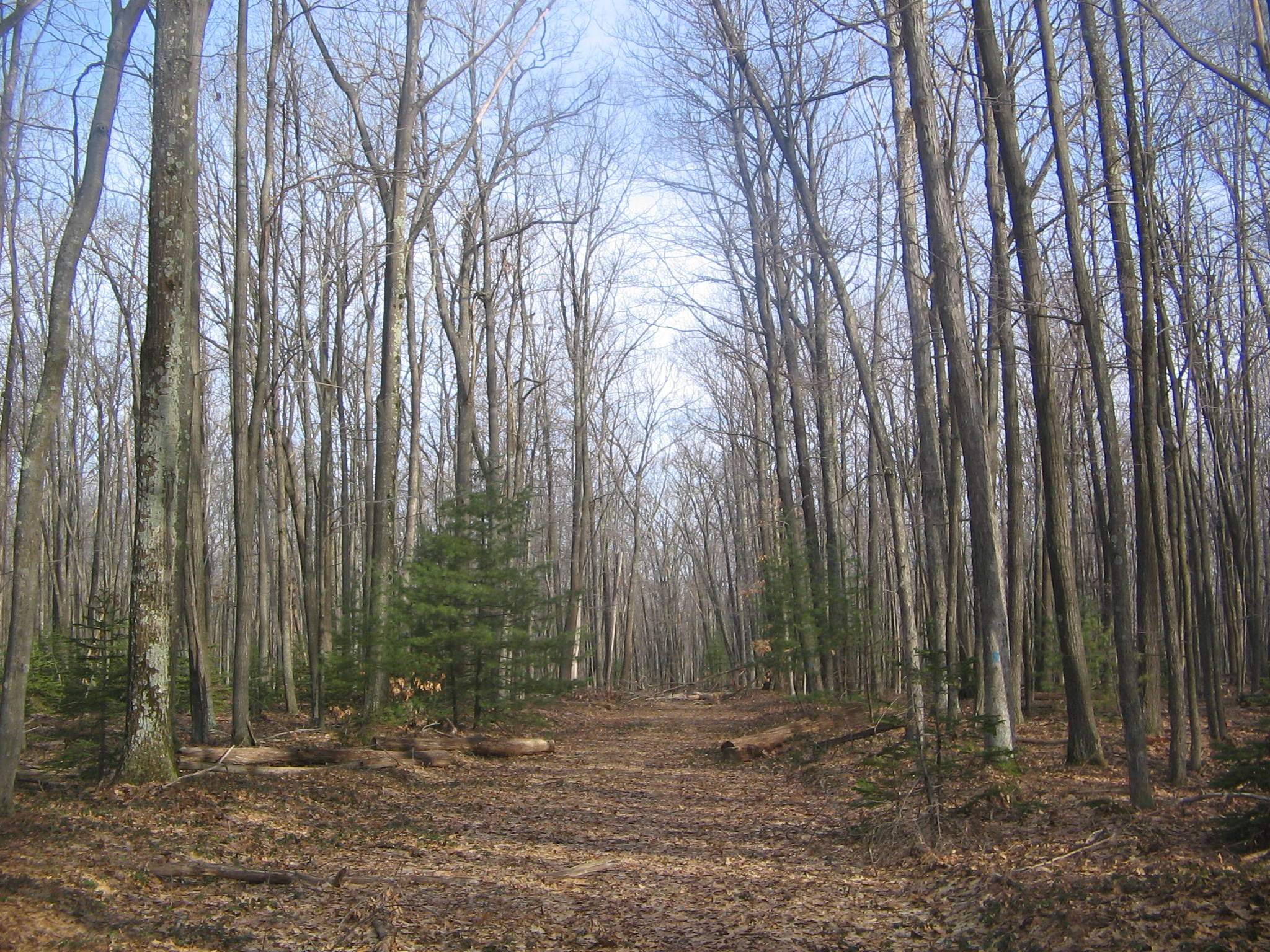 Hoover Road Trail (the former Driftwood Pike) in Wykoff Run Natural Area in Quehanna Wild Area, Cameron County, Pennsylvania, USA.